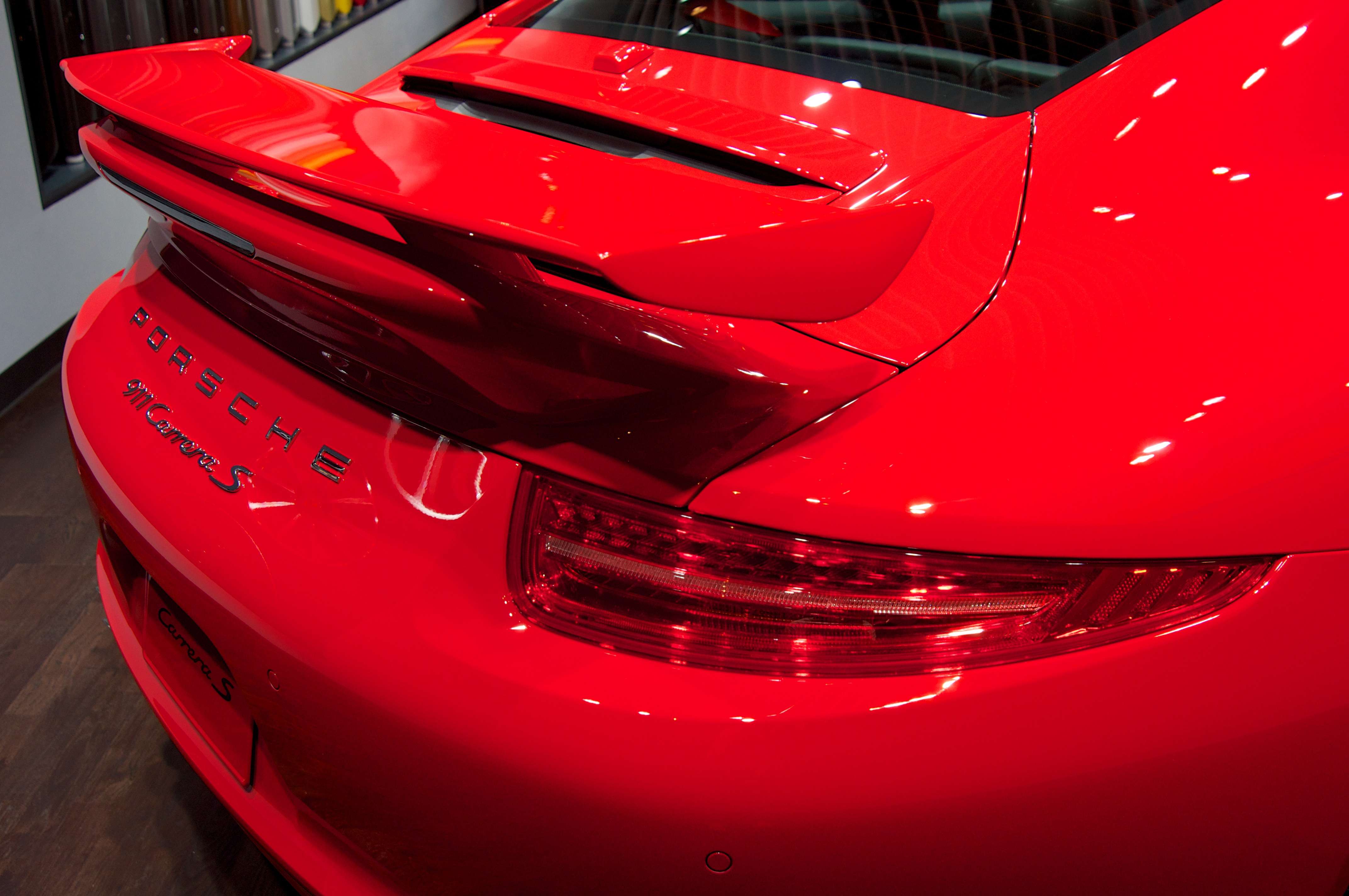 Seen at the 2012 Los Angeles Auto Show. Press day - Wednesday, November 28th. If you use one of my photos, please be so kind as to attribute me and link back to the photo's page. THANK YOU!